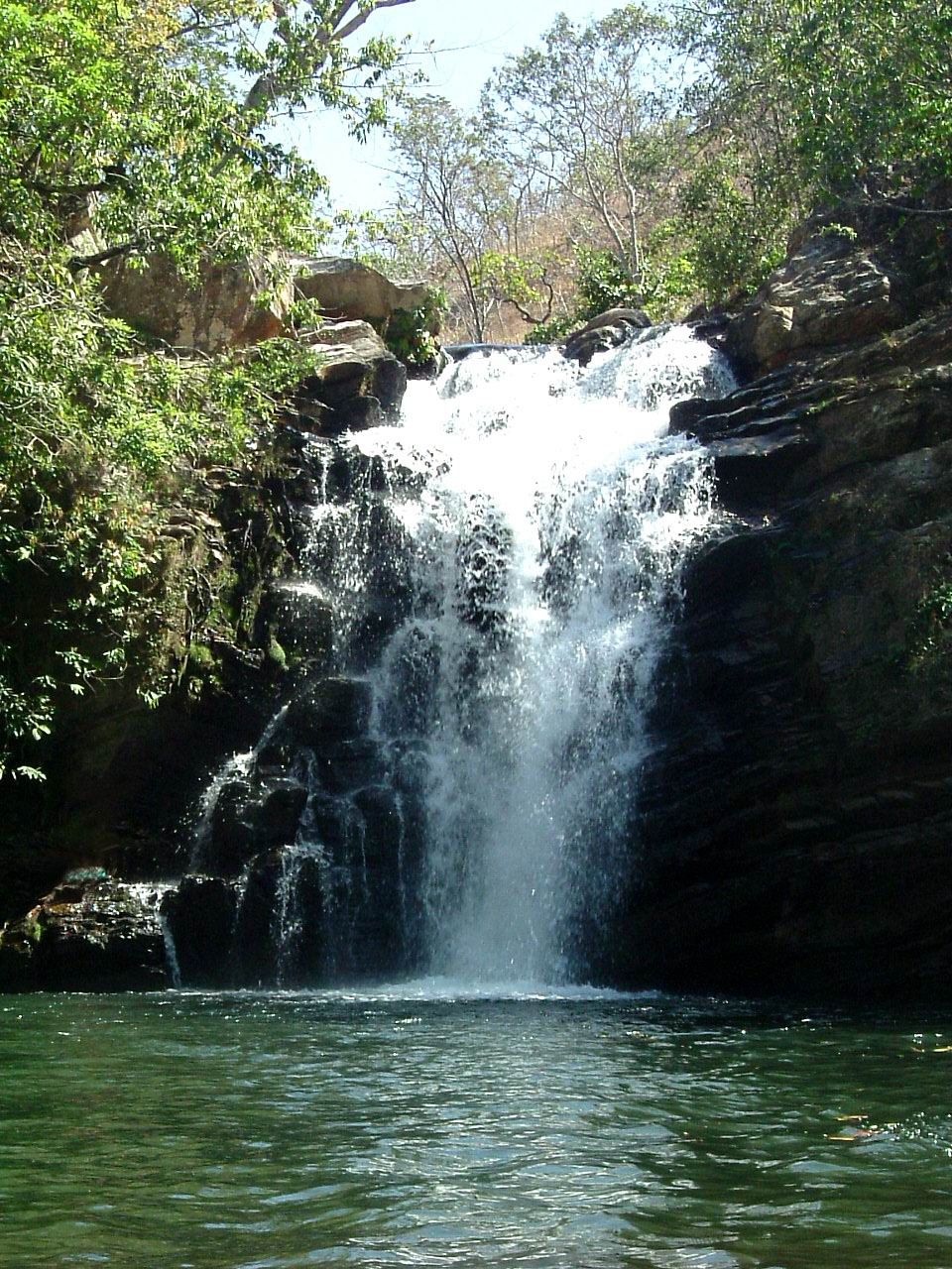 I made this foto during a Tour on Pirenópolis, a brazilian city